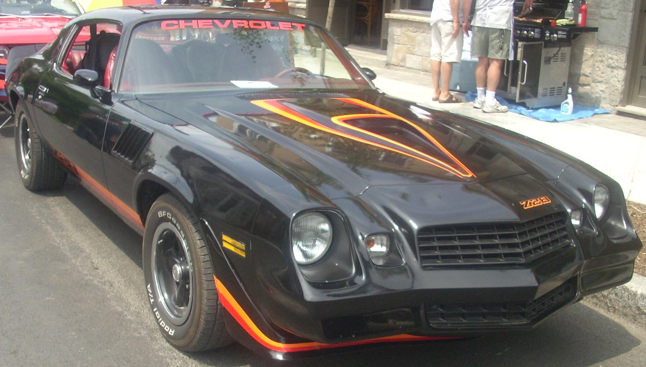 Chevrolet Camaro Z28 photographed in Ste. Anne De Bellevue, Quebec, Canada at Cruisin' At The Boardwalk 2010.